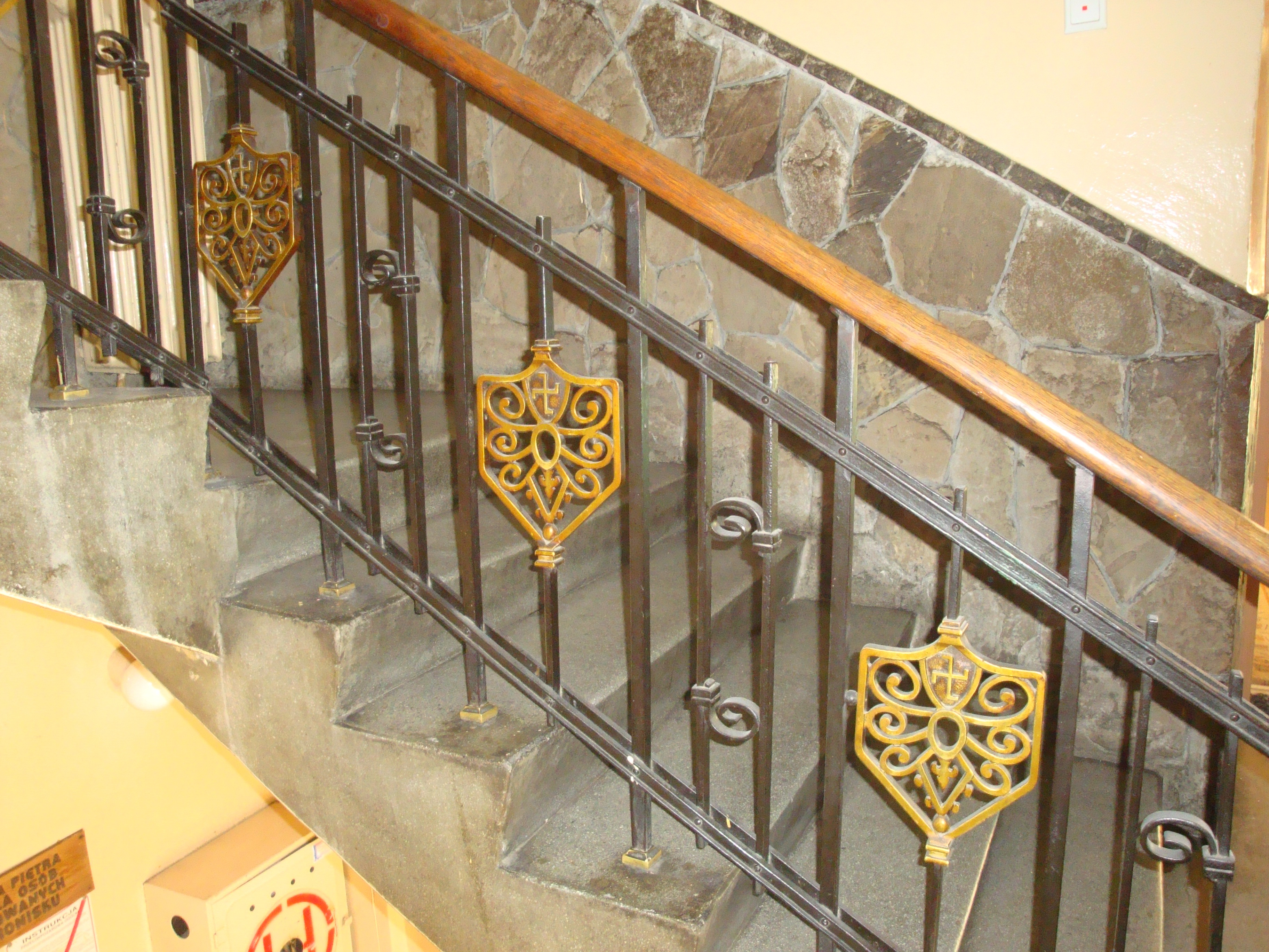 In mountain hut "Murowaniec" in Tatra Mountains, Poland. Swastikas are traditional in Murowaniec and Tatra.